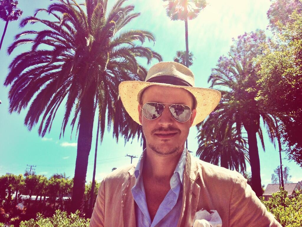 Director Tom Six. Creator of the (in)famous Human Centipede Series